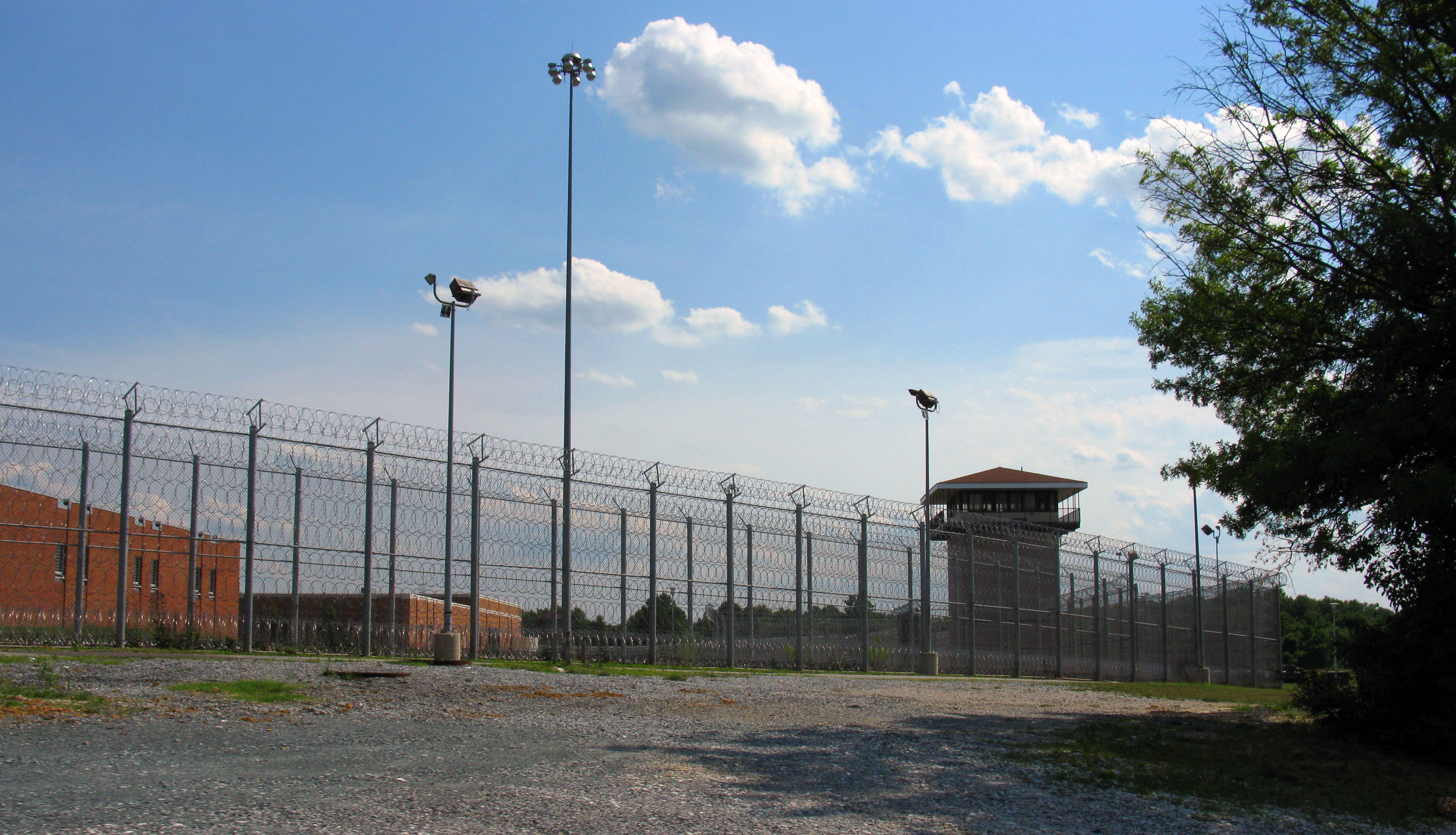 2008 06 20 - 3597 - Jessup - State Prison